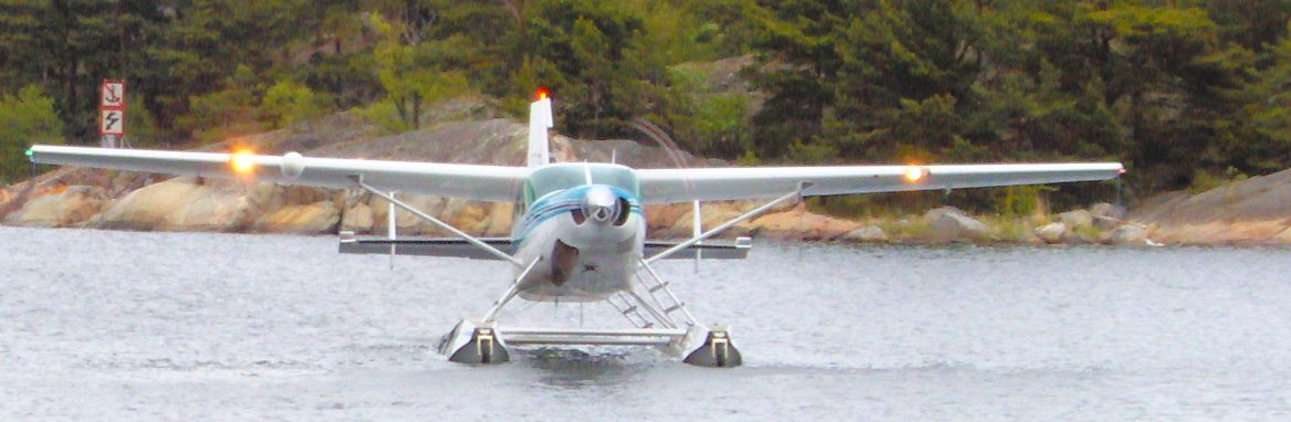 Cessna (seaplane) going to start in the water in Sweden